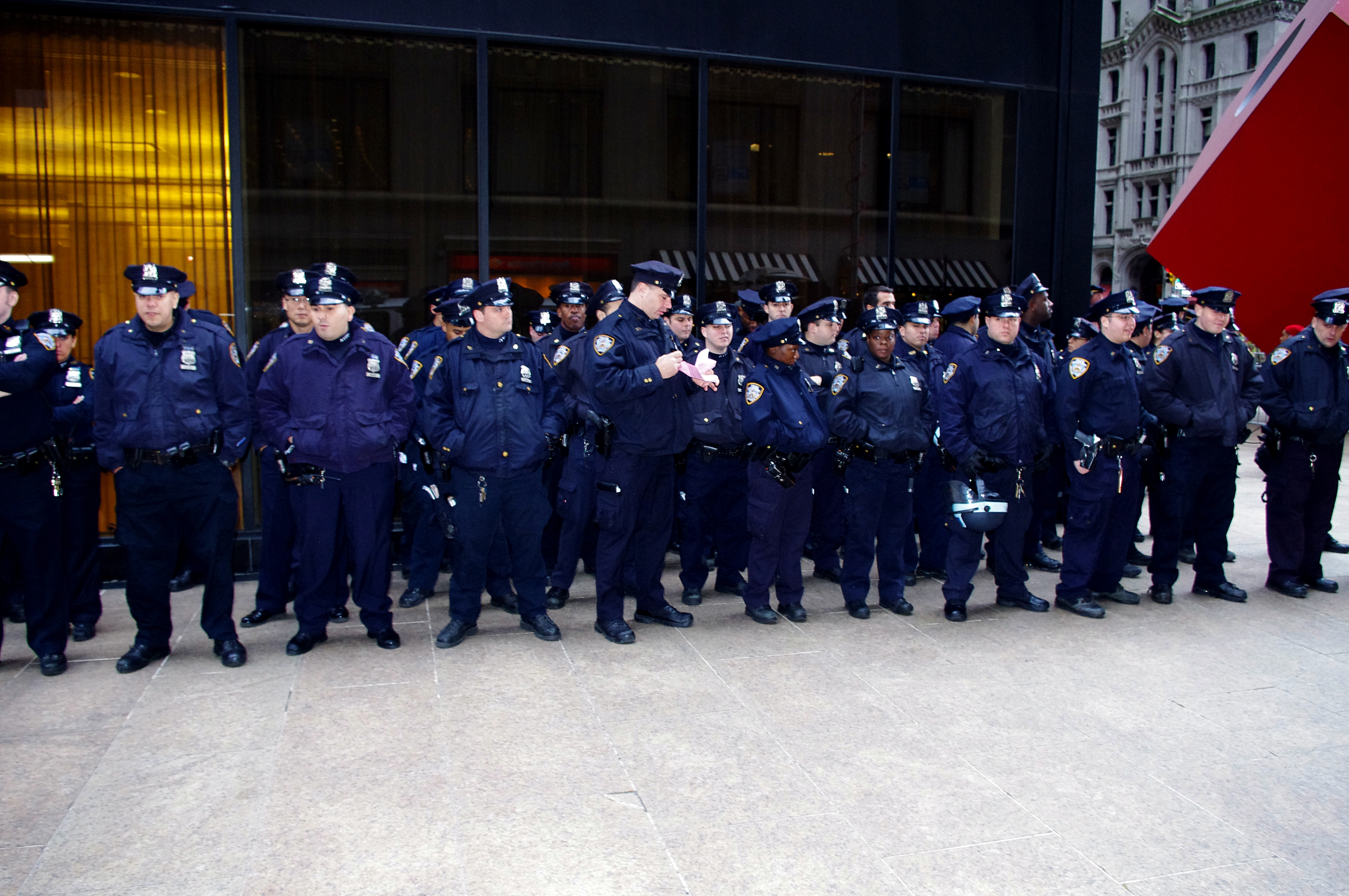 Photos from around Zuccotti Park on Day 36 of Occupy Wall Street in New York, Friday, October 21.